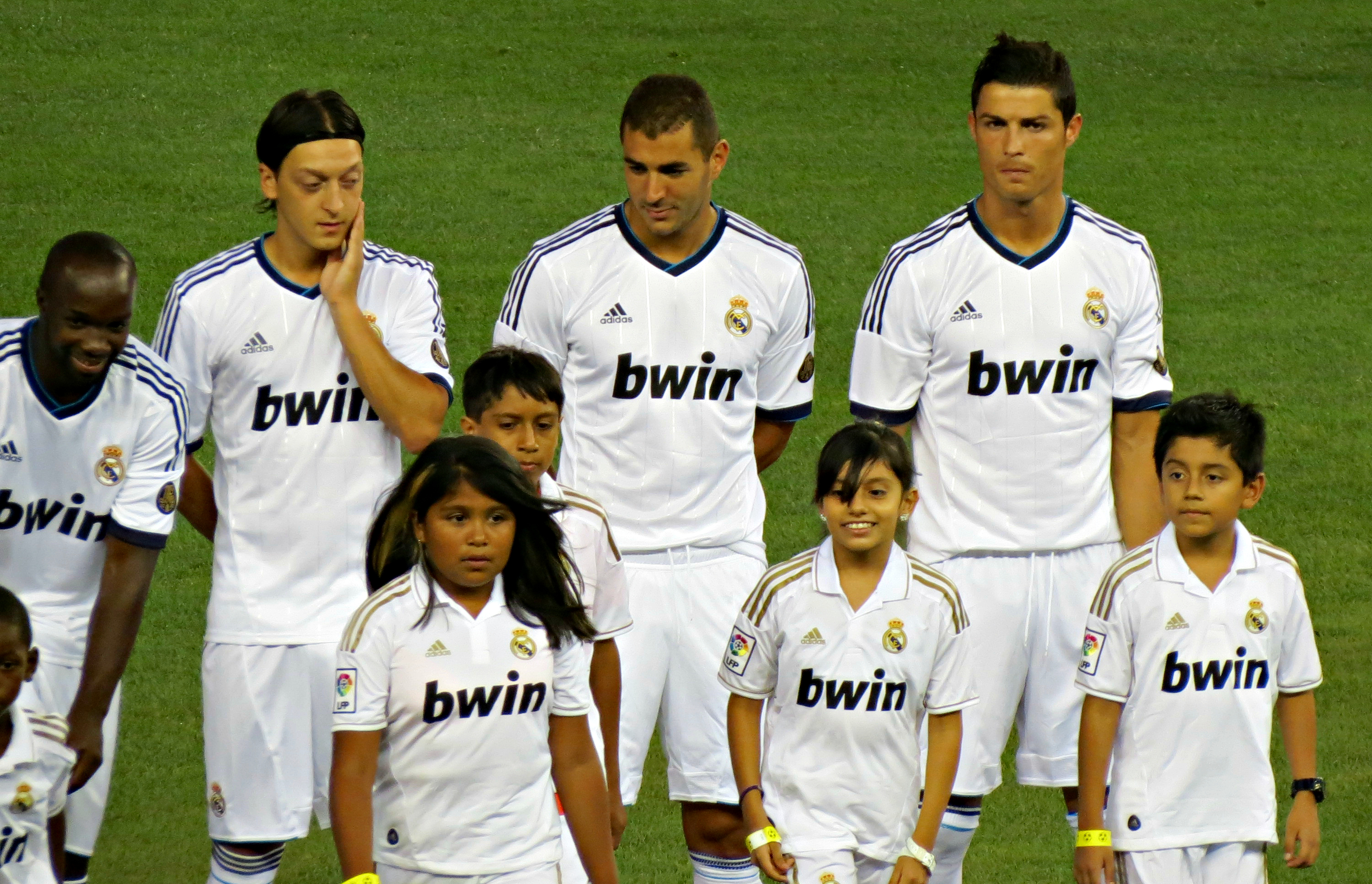 Lassana Diarra, Mesut Ozil, Karim Benzema and Cristiano Ronaldo of Real Madrid line up before a friendly match against Real Madrid in August 2012.